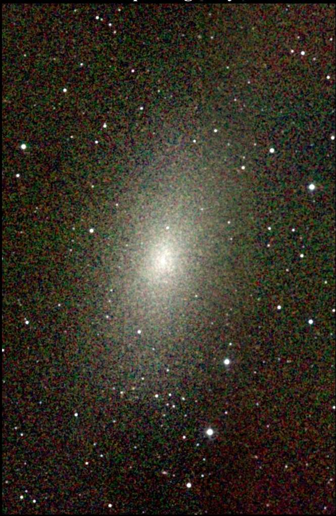 Messier 110, eliptical galaxy M110